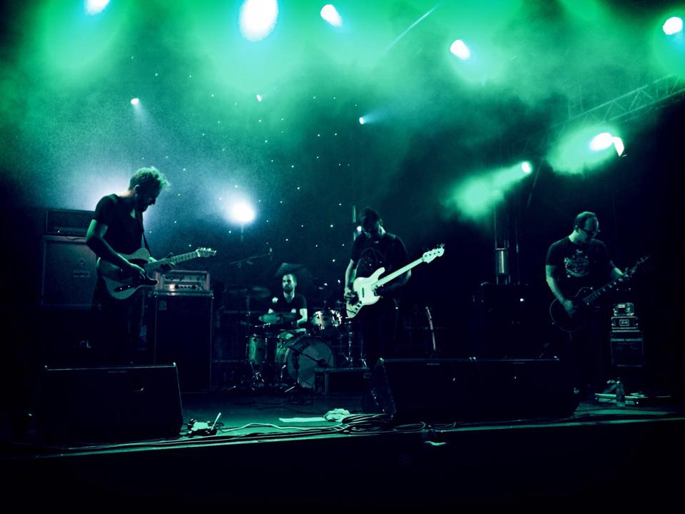 Doomina performing in St. Veit, Austria in Summer 2015